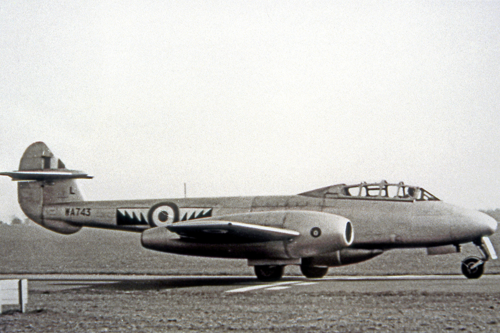 Gloster Meteor T.7 WA743 of No. 610 Squadron RAF at Manchester Ringway Airport in 1953